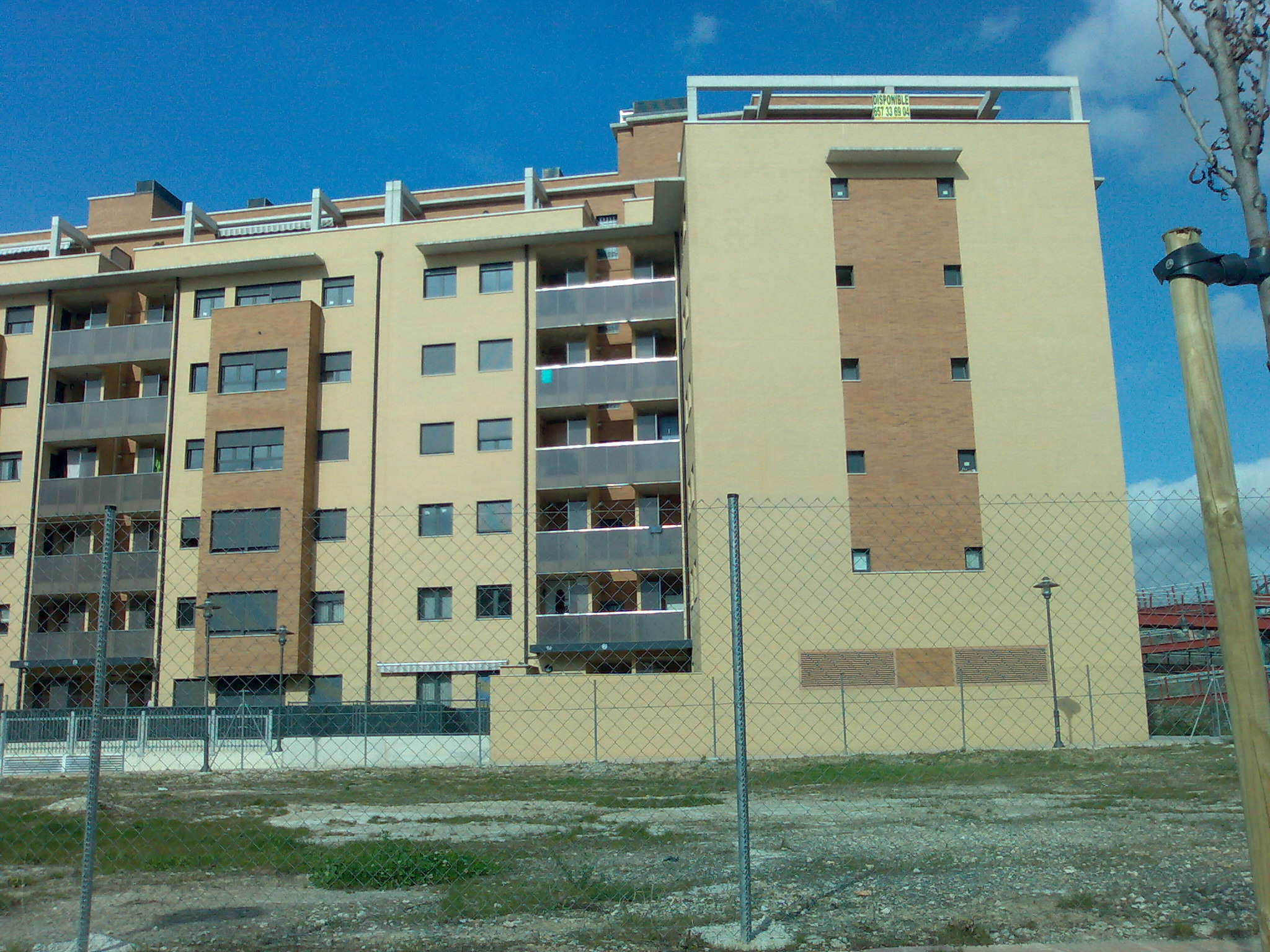 Berriobeitiko Artika Berriko etxebizitza berriak.